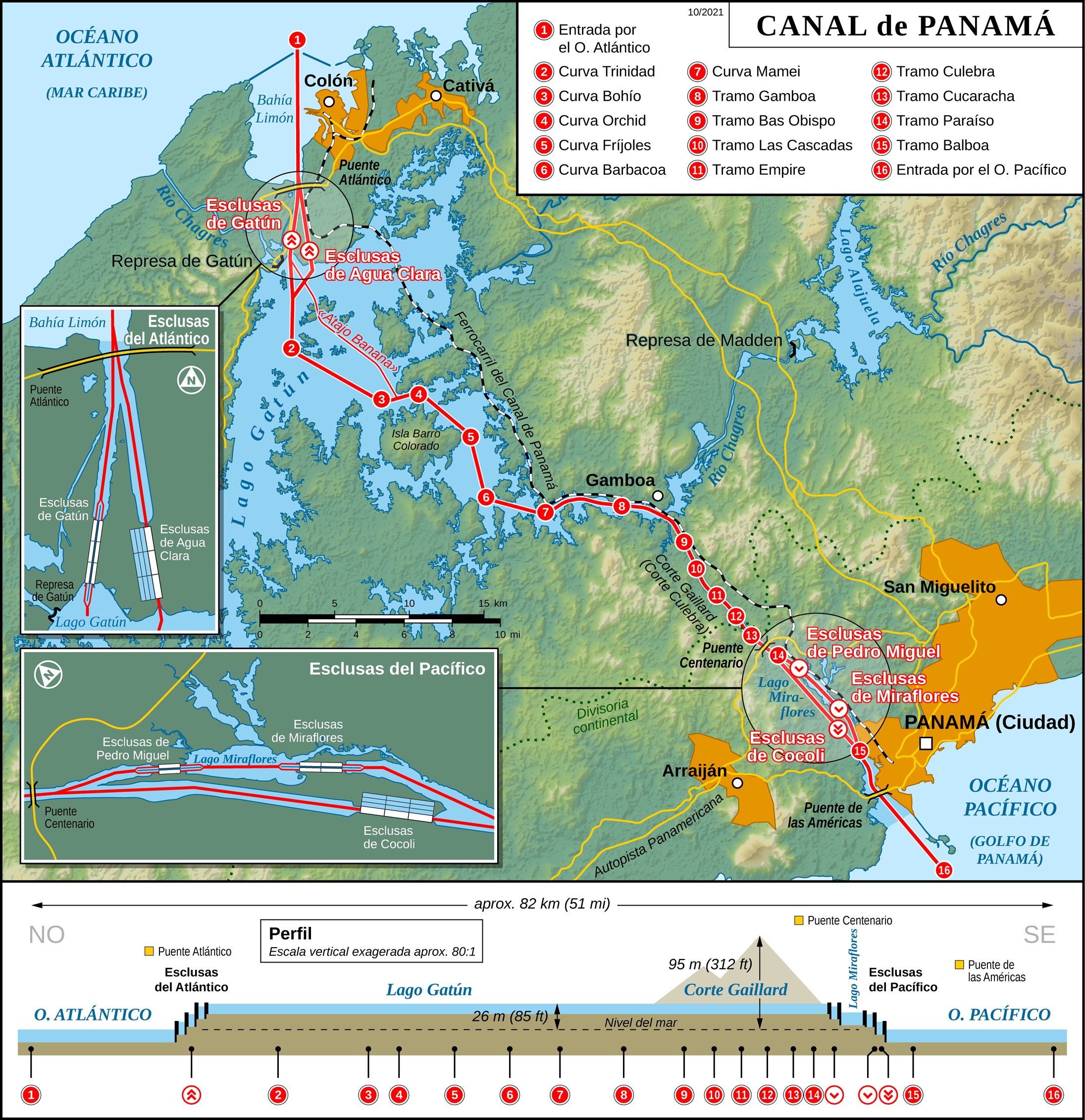 Map of the Panama Canal (Spanish version)